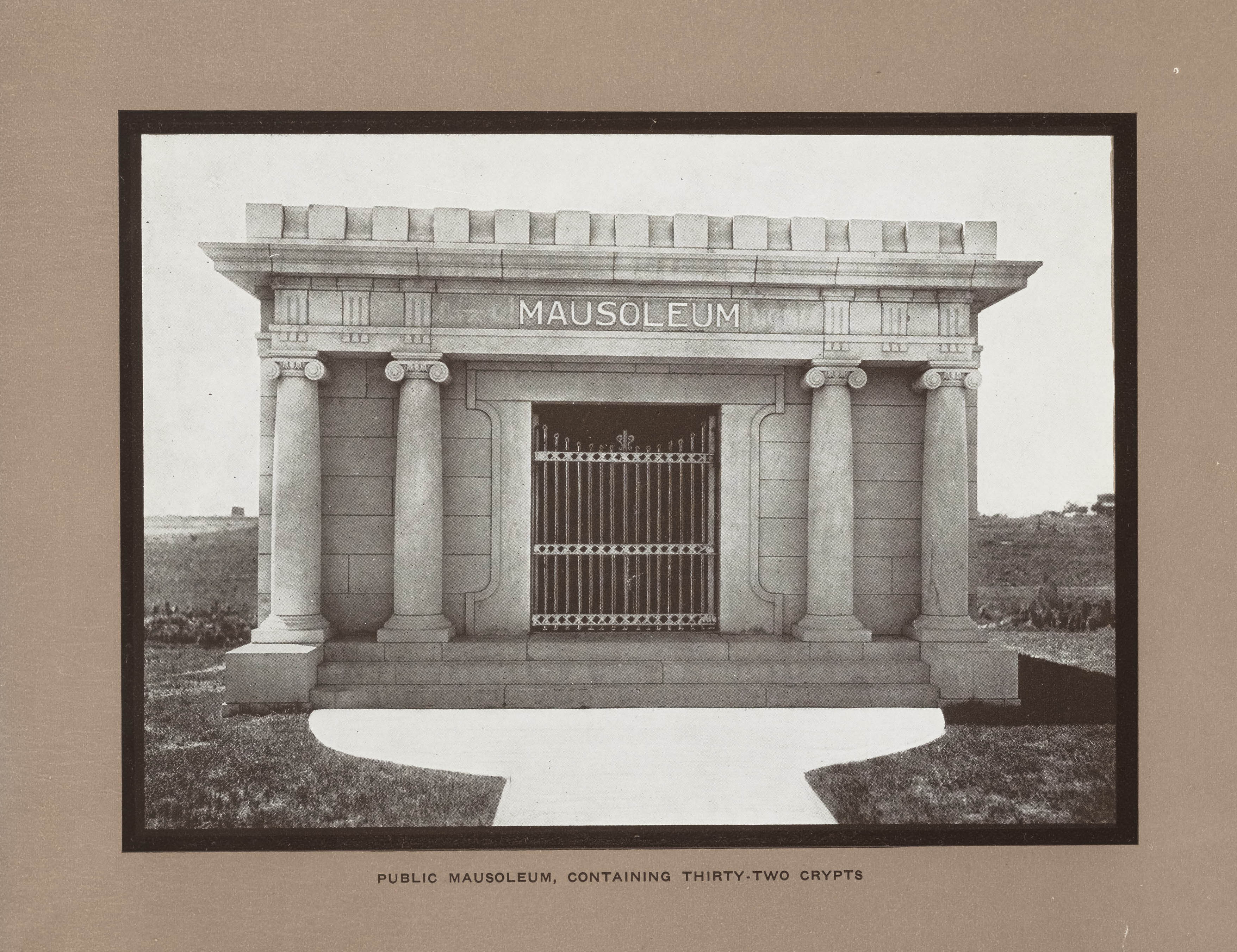 Receiving vault (mausoleum) at Mount Olivet Cemetery in Fort Worth, Texas. Built in 1909 and demolished in 1983.